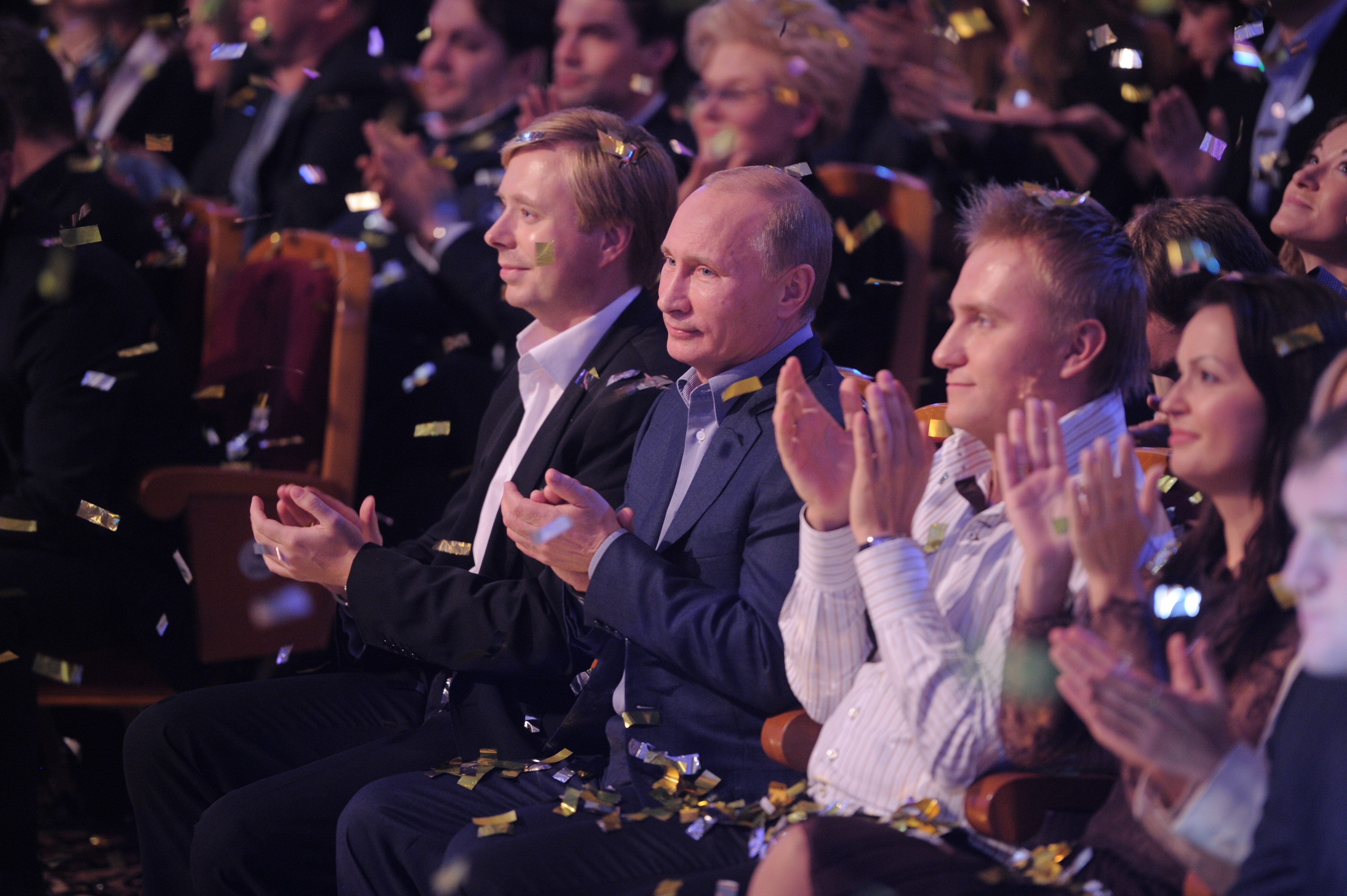 Vladimir Putin attends the taping of the KVN comedy show